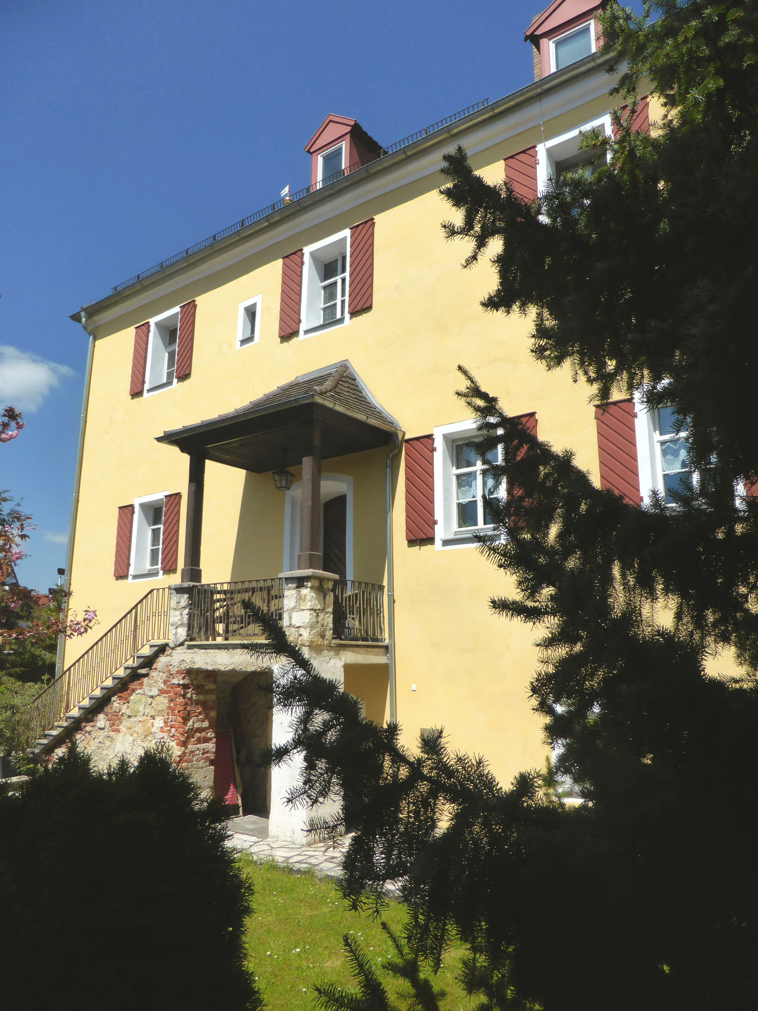 Schloss Haselmühl